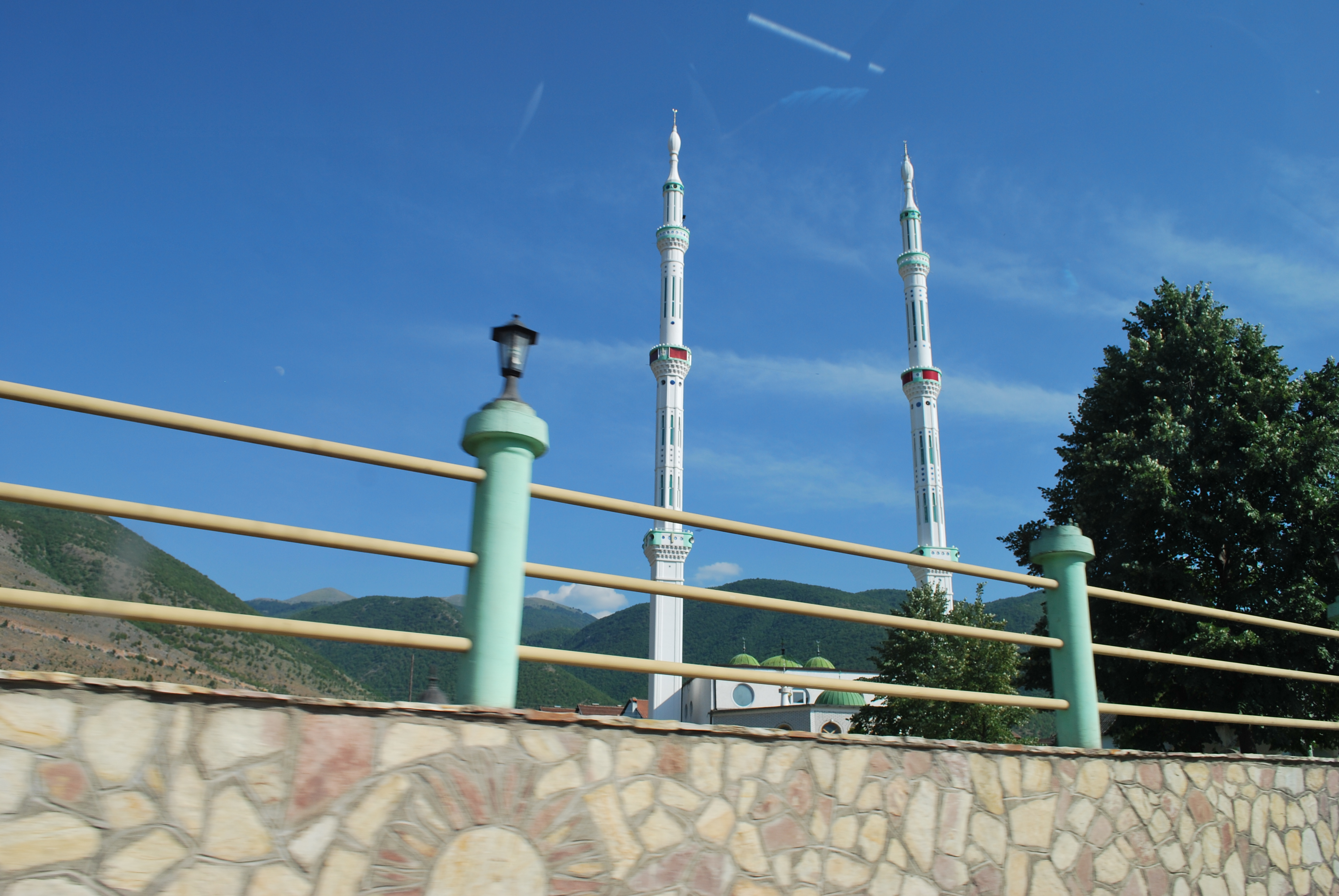 Čegrane near Gostivar, Macedonia